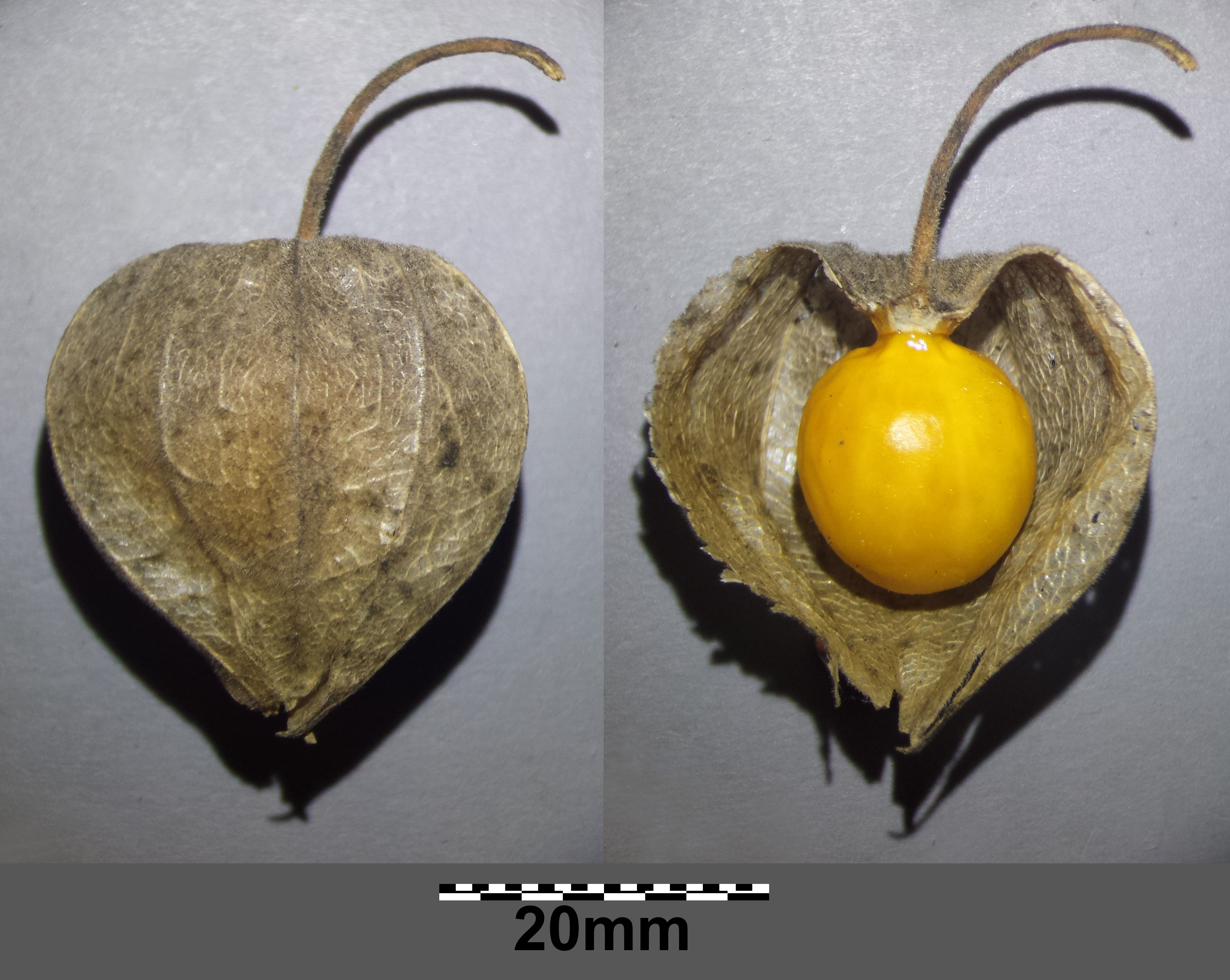 Berry surrounded by the inflated calyx, on the right calyx partly removed Taxonym: Physalis peruviana ss Fischer et al. EfÖLS 2008 ISBN 978-3-85474-187-9 Location: quarry 1,25 km east to Höbersdorf, district Korneuburg, Lower Austria - 220 m a.s.l. Habitat: quarry